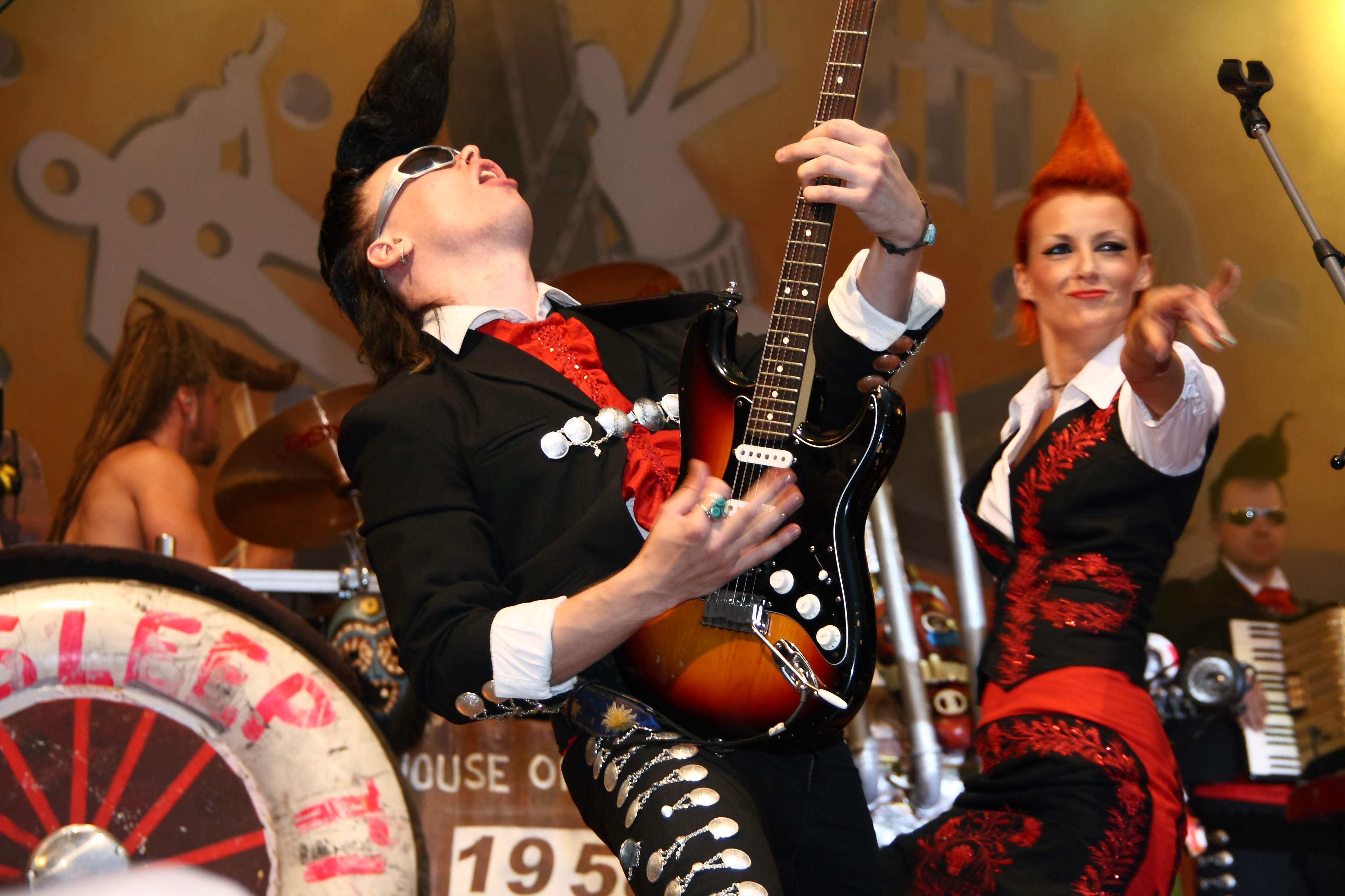 Leningrad Cowboys at TFF.Rudolstadt 2010